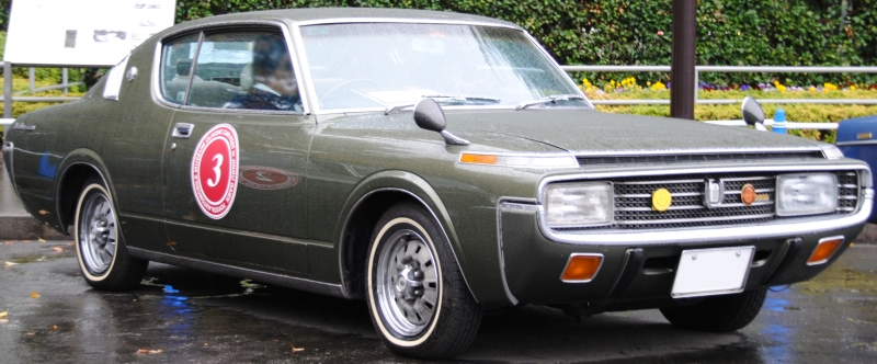 Toyota Crown 2door Hardtop 2600 Super Saloon